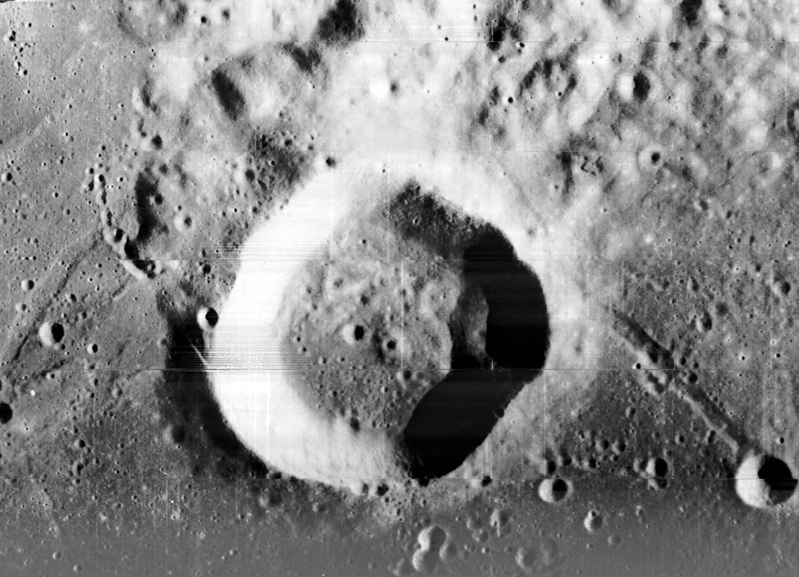 Image of lunar crater Webb with surroundings, taken by Lunar Orbiter 1. The preview image 1034_med.jpg was reduced in size to 67% of normal, then cropped to focus on the crater.